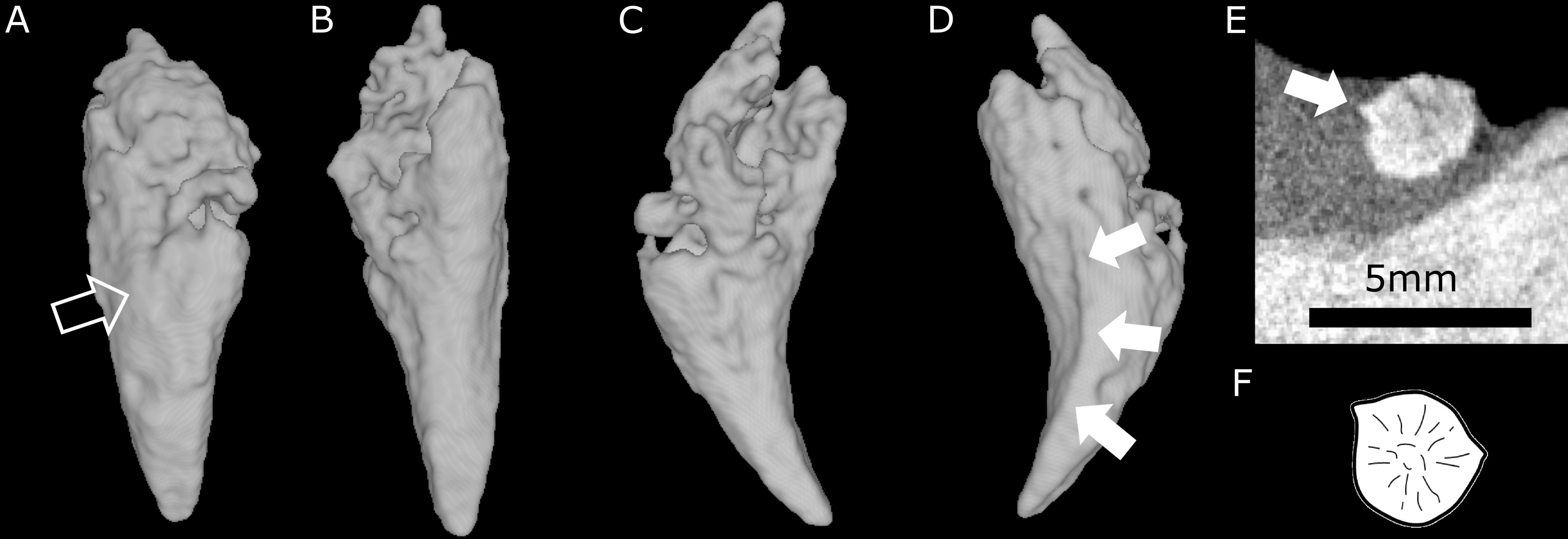 Three-dimensional rendering of the ex situ incisor of BP/1/4009. A, labial view (the empty arrow points to the wear facet); B, lingual view; C, mesial view; D, distal view; E, cross CT section through the middle of the ex situ incisor showing the conspicuous ridge (white arrow); F, cross section of the first right incisor of the lower jaw of an unidentified scylacosaurid therocephalian (= Glanosuchus?), redrawn after [51, 52].